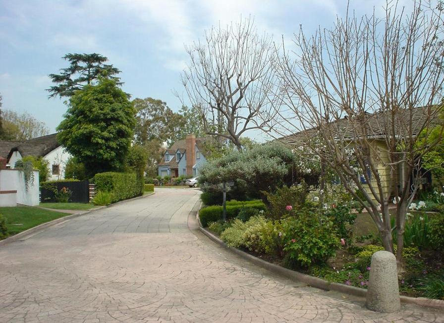 April 2008 photo in Los Cerritos of La Linda Drive looking North East from the entrance.